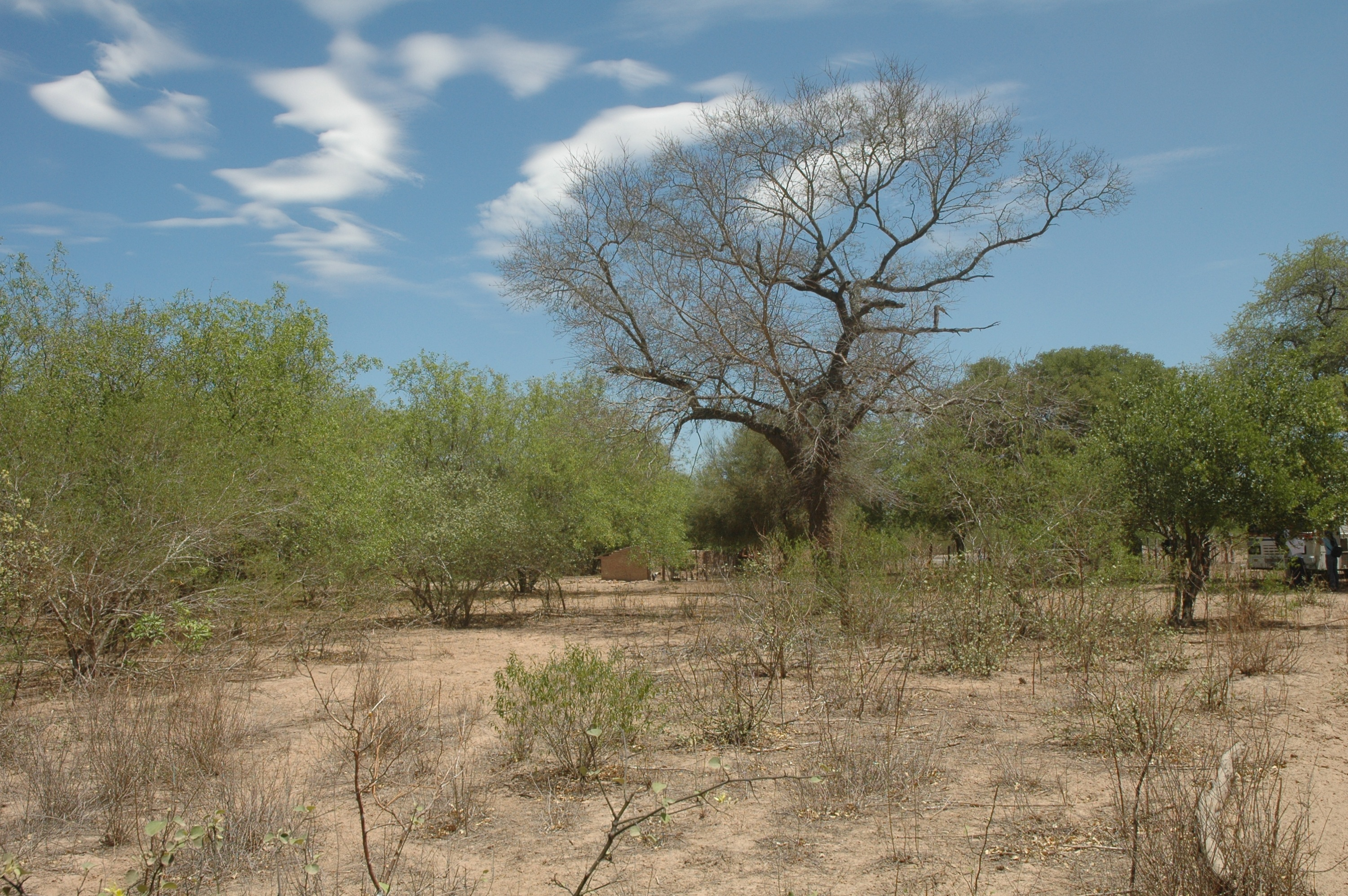 Dry Chaco. Old village of Pintado (N of Wichi). Argentina.